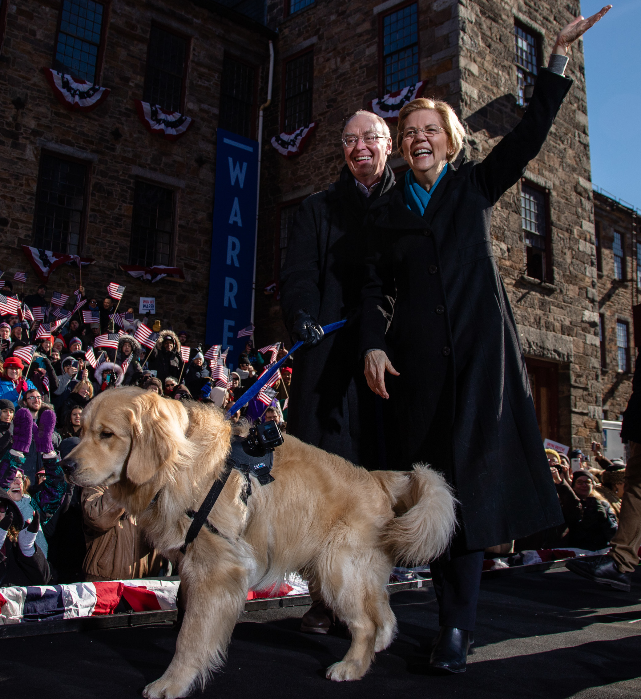 (Chuck Kennedy for Warren 2020) Senator Elizabeth Warren (D-MA) announces her 2020 presidential campaign at Everett Mills, in Lawrence, Massachusetts on February 9, 2019. (Photo: Chuck Kennedy for the Warren campaign)